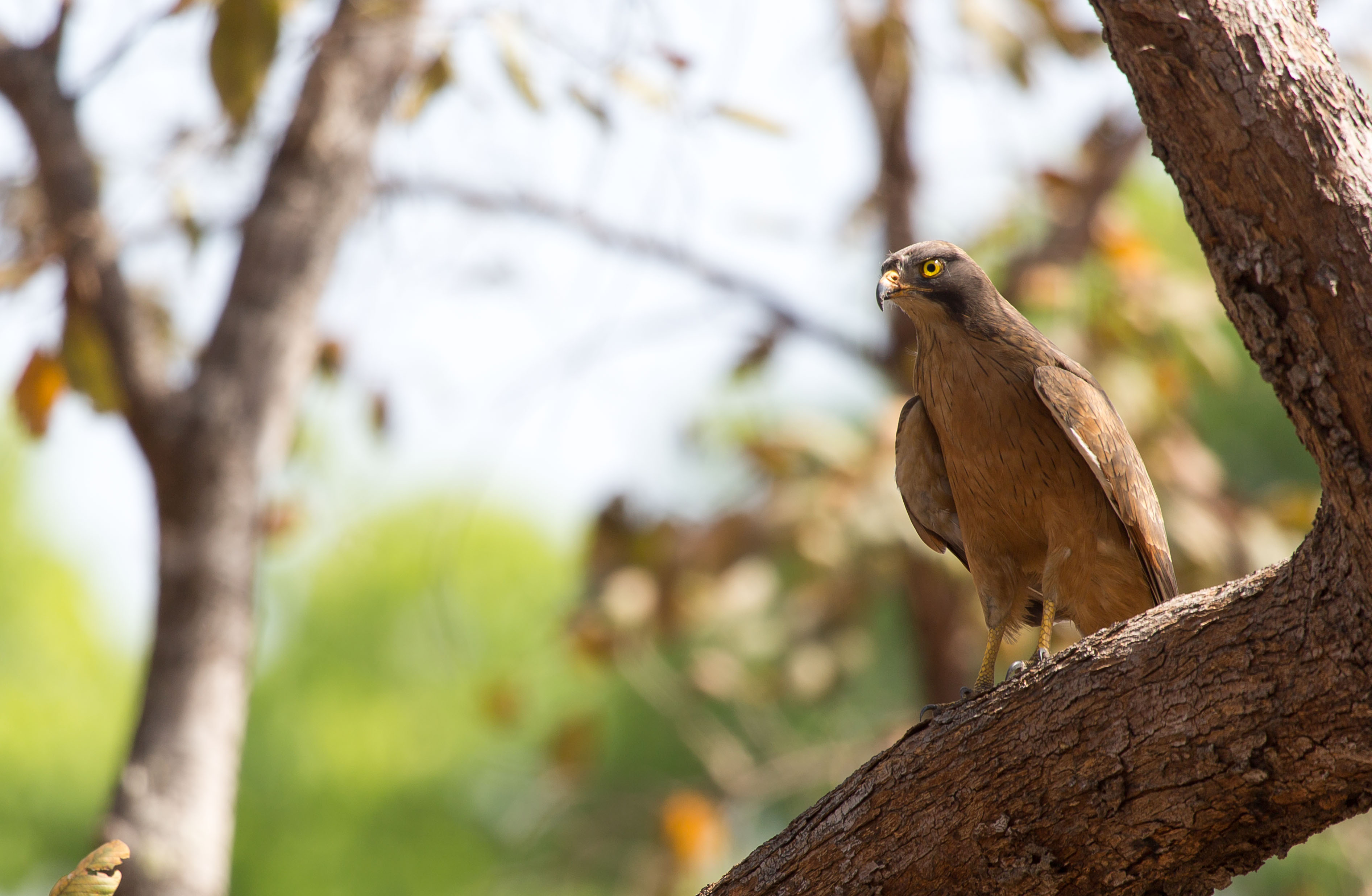 Raptor in the comoe NP